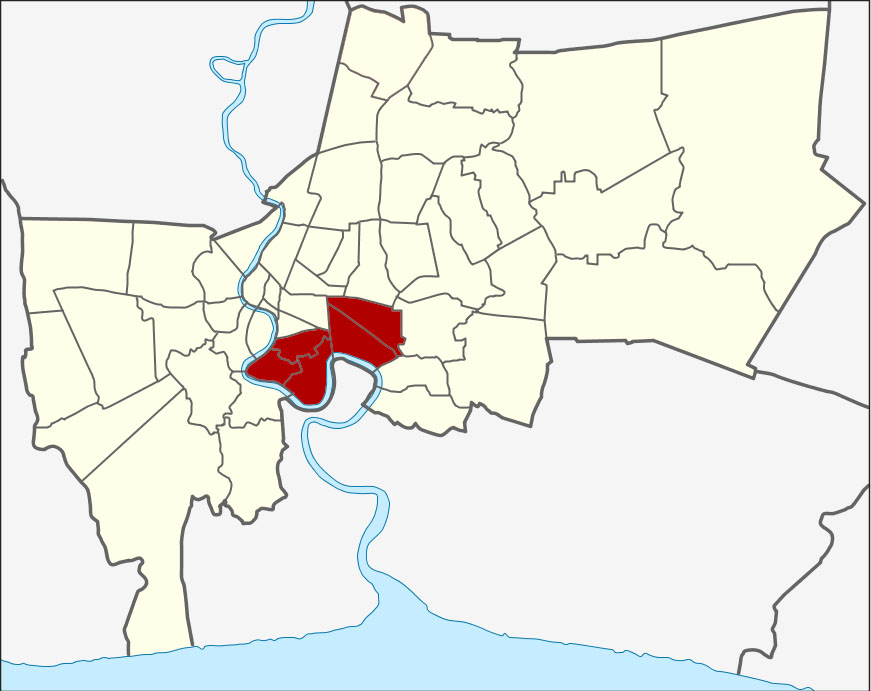 Bangkok 2007 Election Zone 2